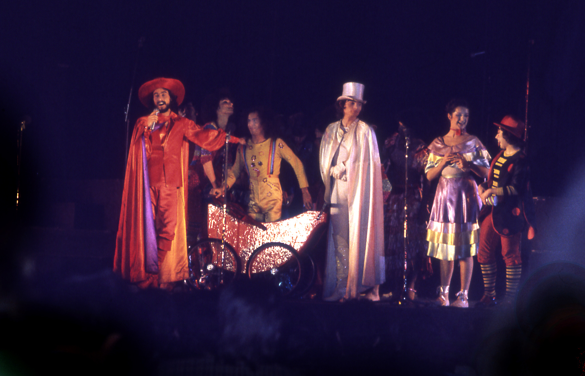 Michel Fugain and the Big Bazar band circa 1974.